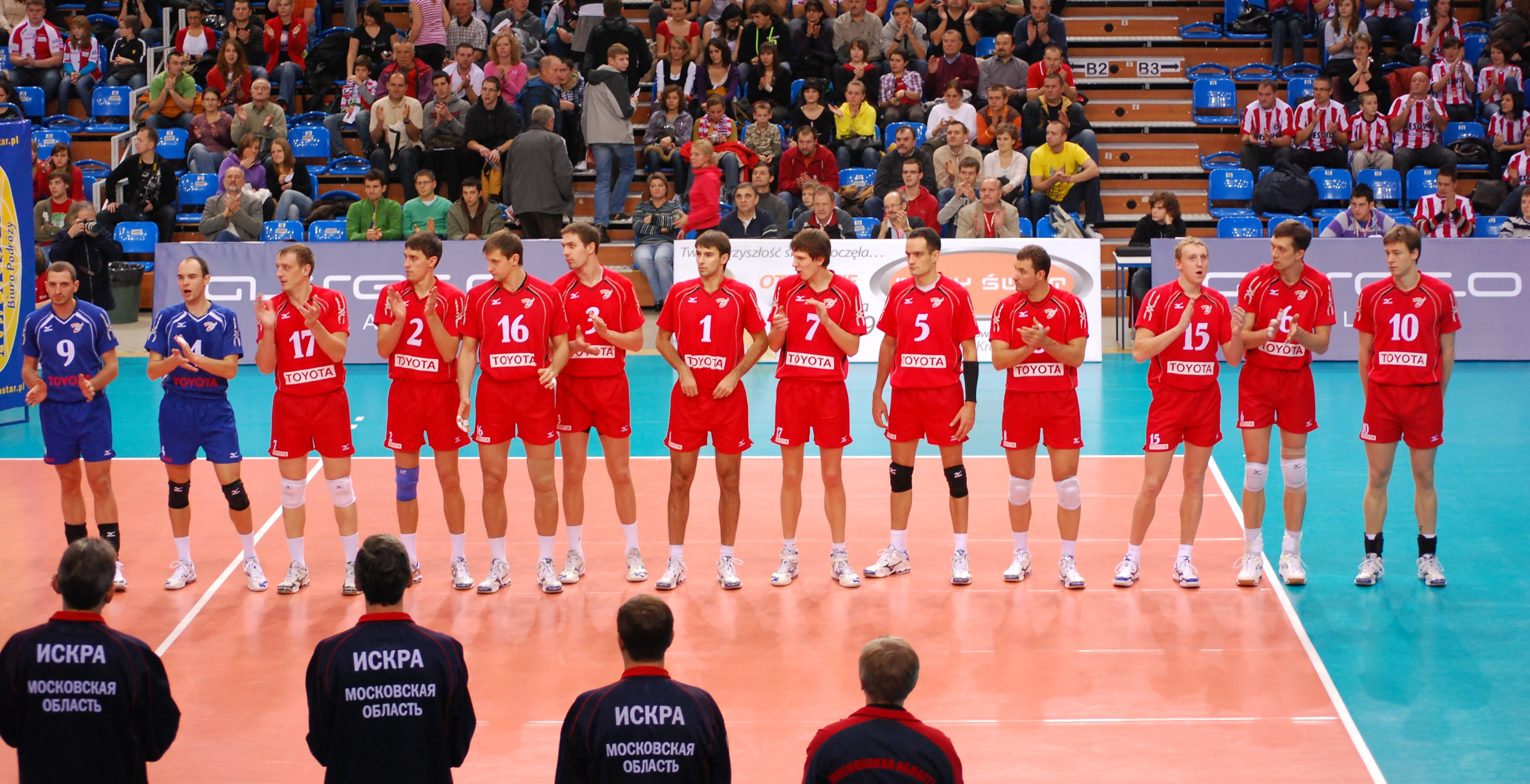 VC Iskra Odintsovo before sparring match with Asseco Resovia Rzeszów in Podpromie Hall